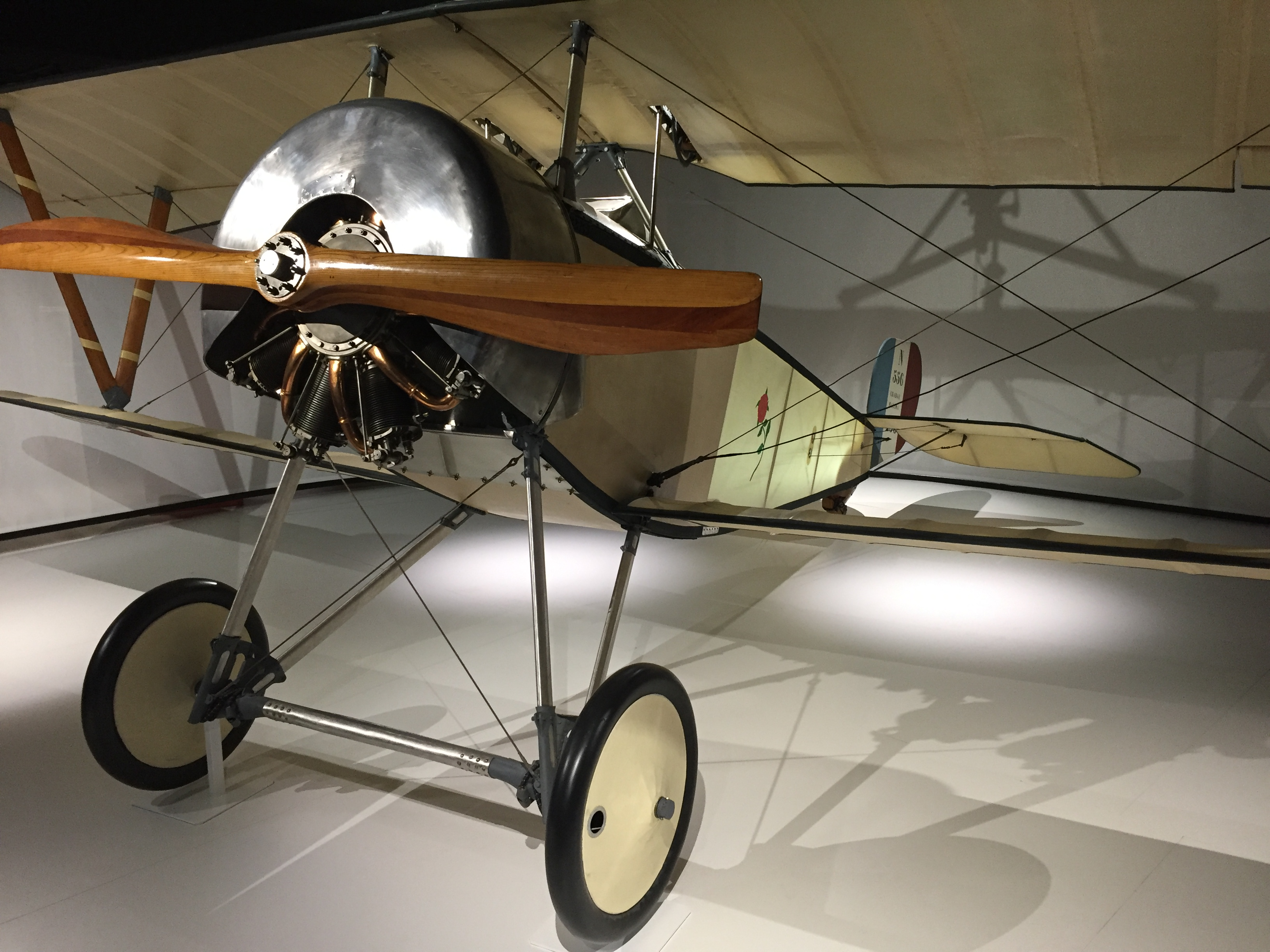 Nieuport XI with de Rose markings